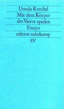 Book cover of Ursula Krechel, "Mit dem Koerper des Vaters spielen". Essays 1992